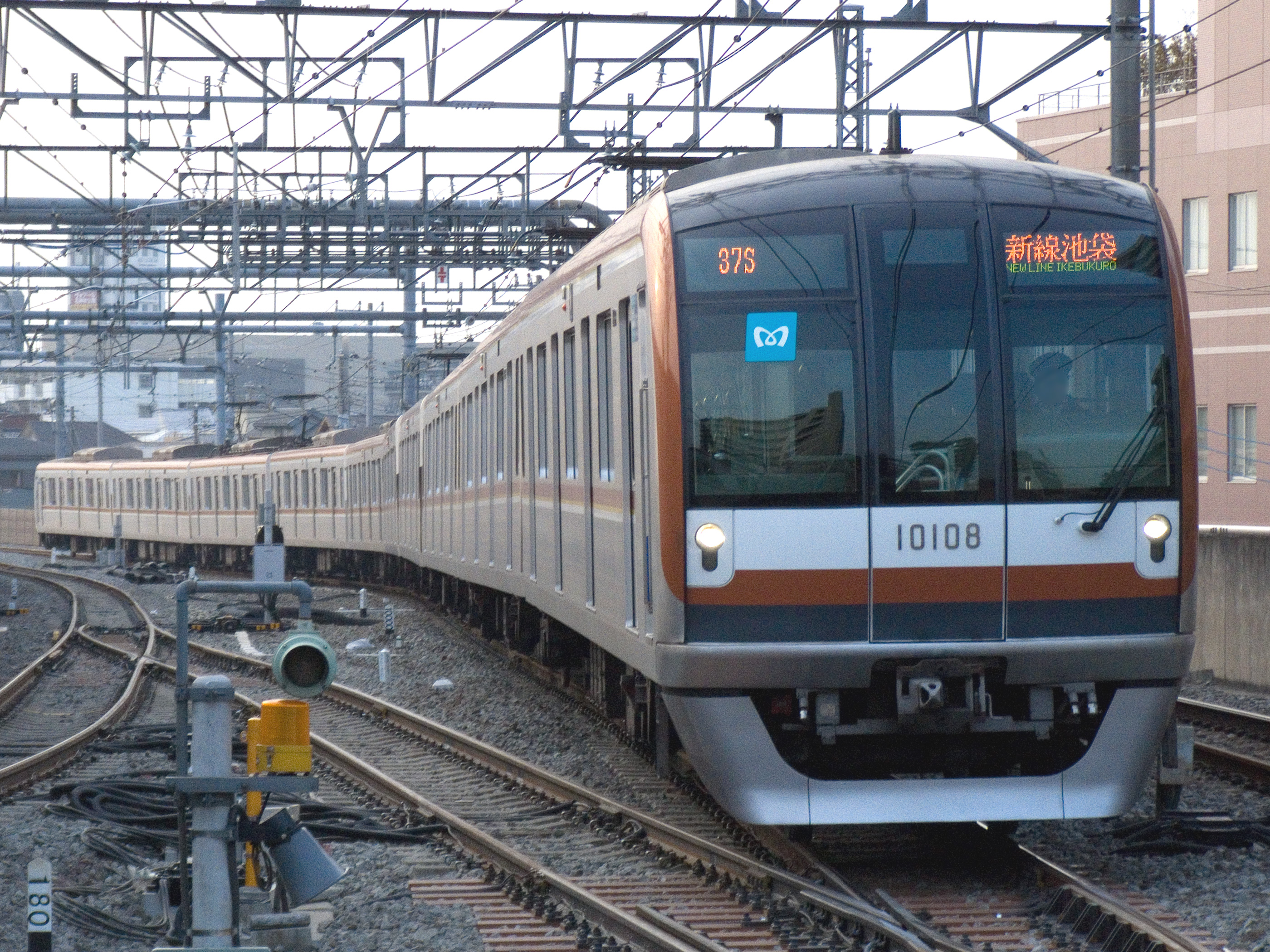 Tōkyō Metro 10000 series the 8th unit